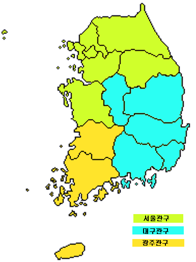 Ecclesiastical Provinces of South Korea(by korean name)